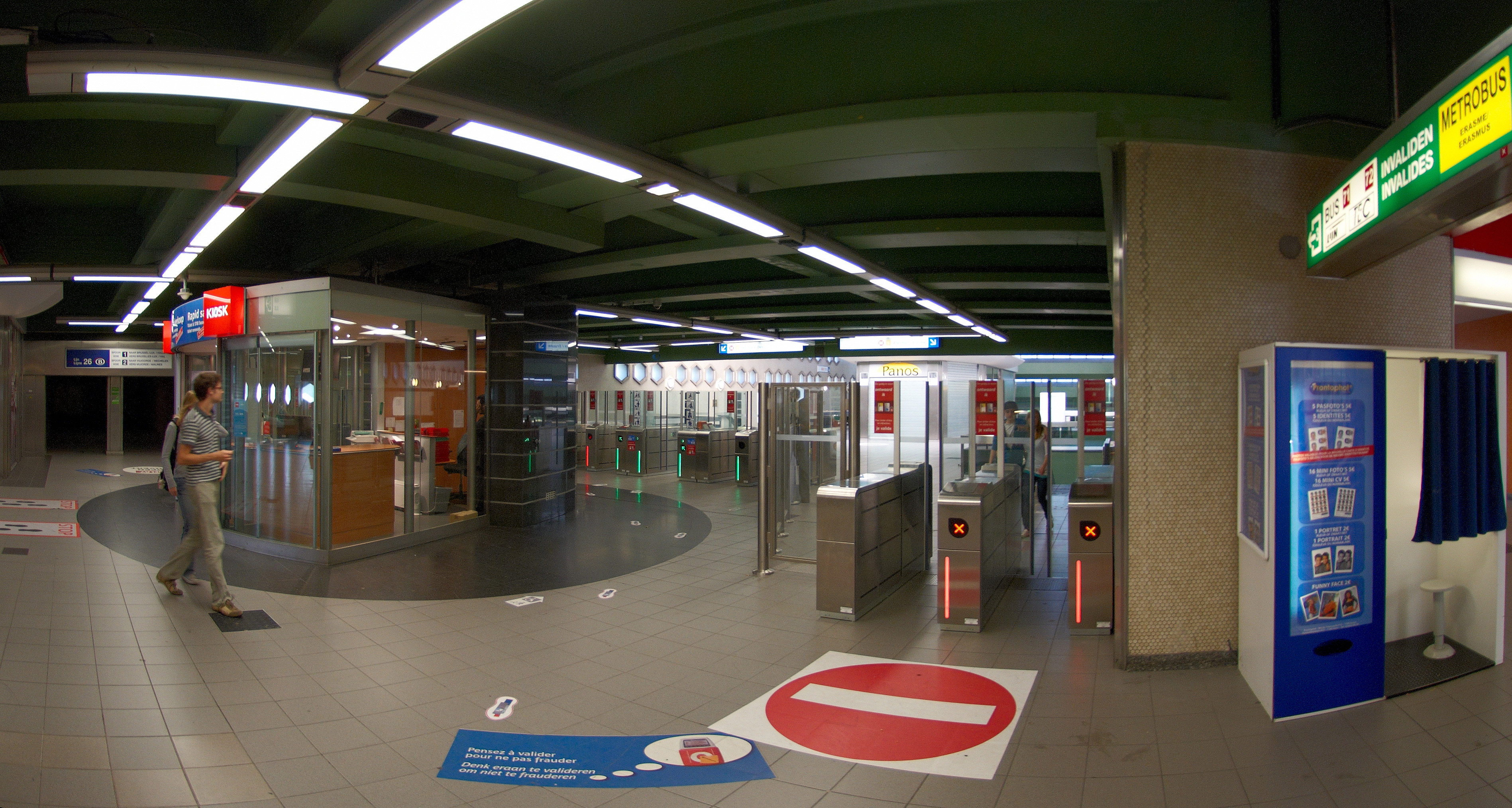 Metro station Delta, Brussels, Belgium